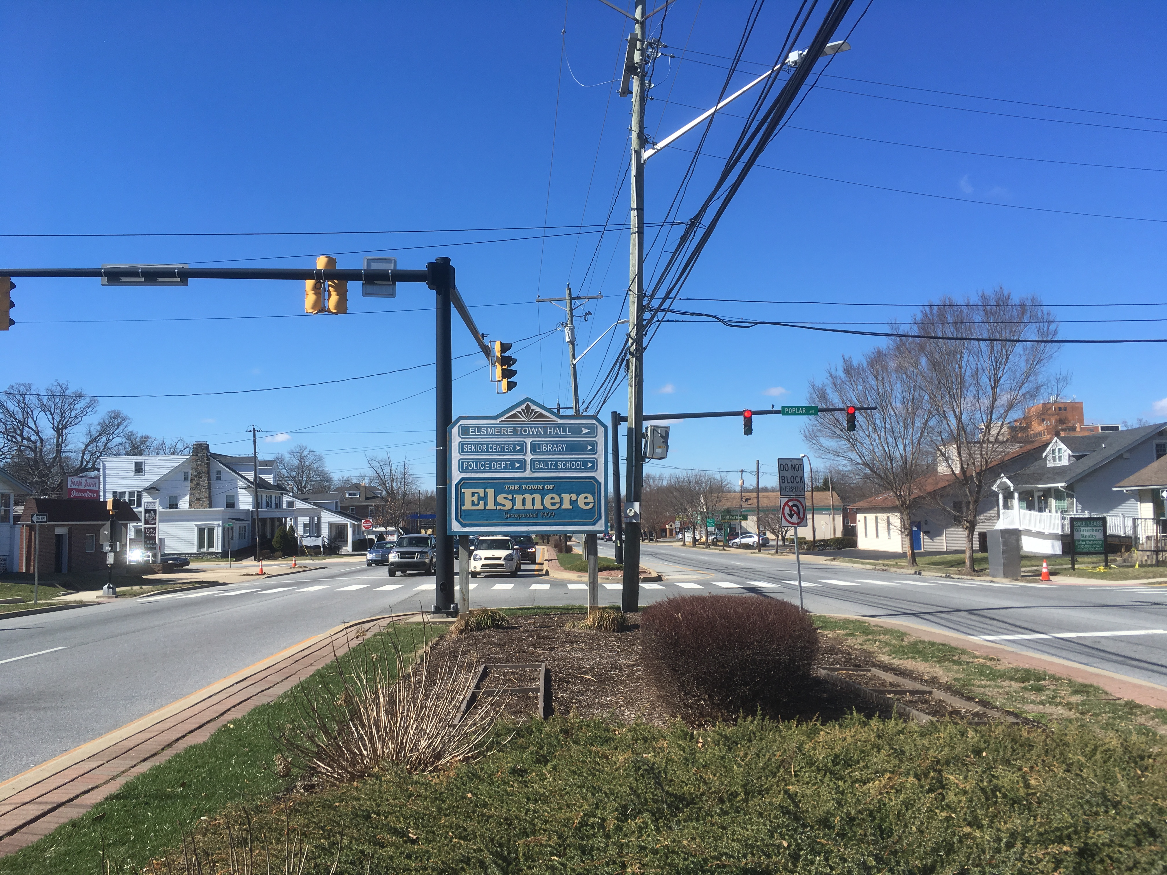 Westbound Delaware Route 2 (Kirkwood Highway) at the intersection with Poplar Avenue in Elsmere, Delaware